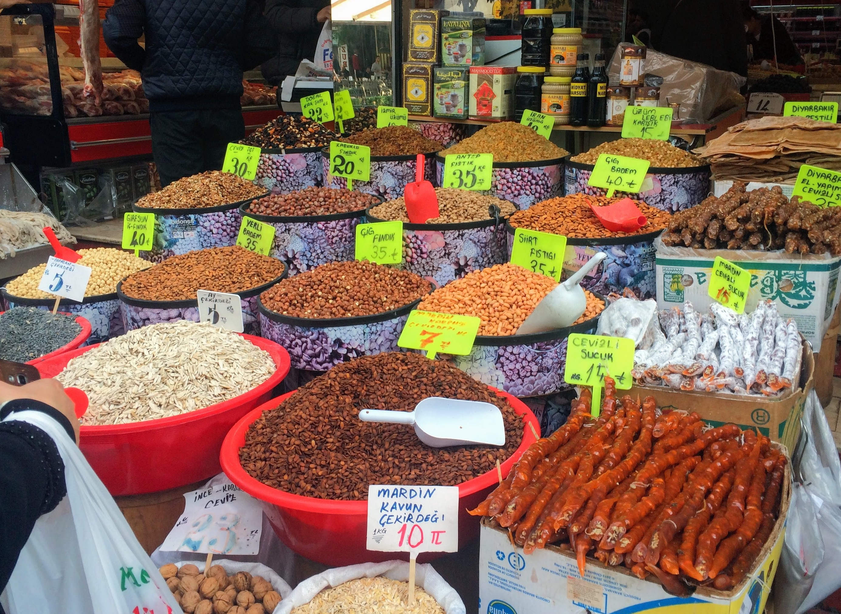 Nuts market